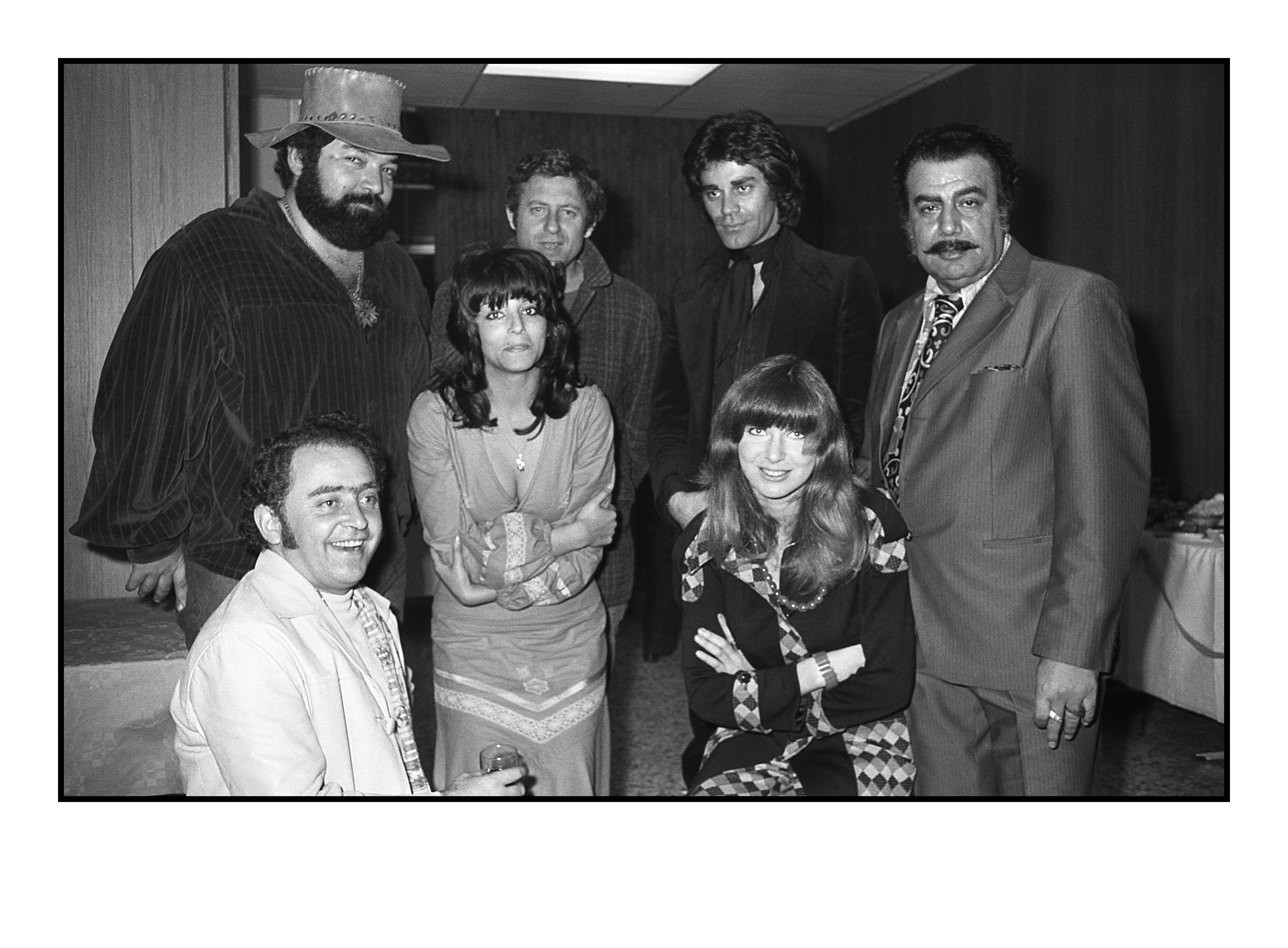 On the top, from left to right: Paul L. Smith, Uri Zohar, Joe Jaffer and George Abdías.On bottom, from left to right: Elian Moisés, Yona Elian and Rachel Forman.The Bull Buster (1975)